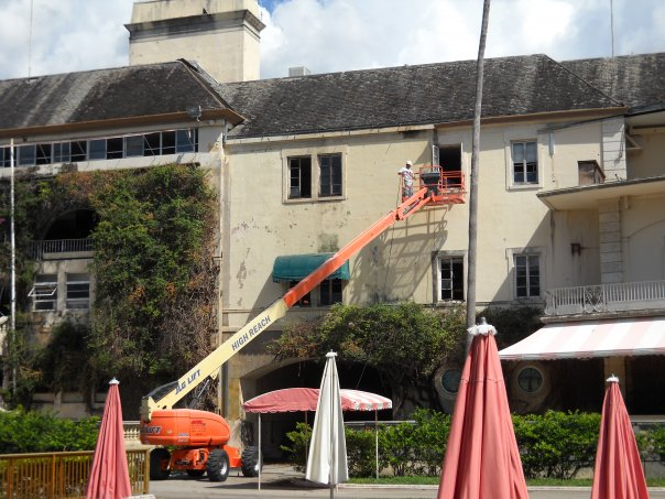 Hialeah Park Club House during restoration in 2009